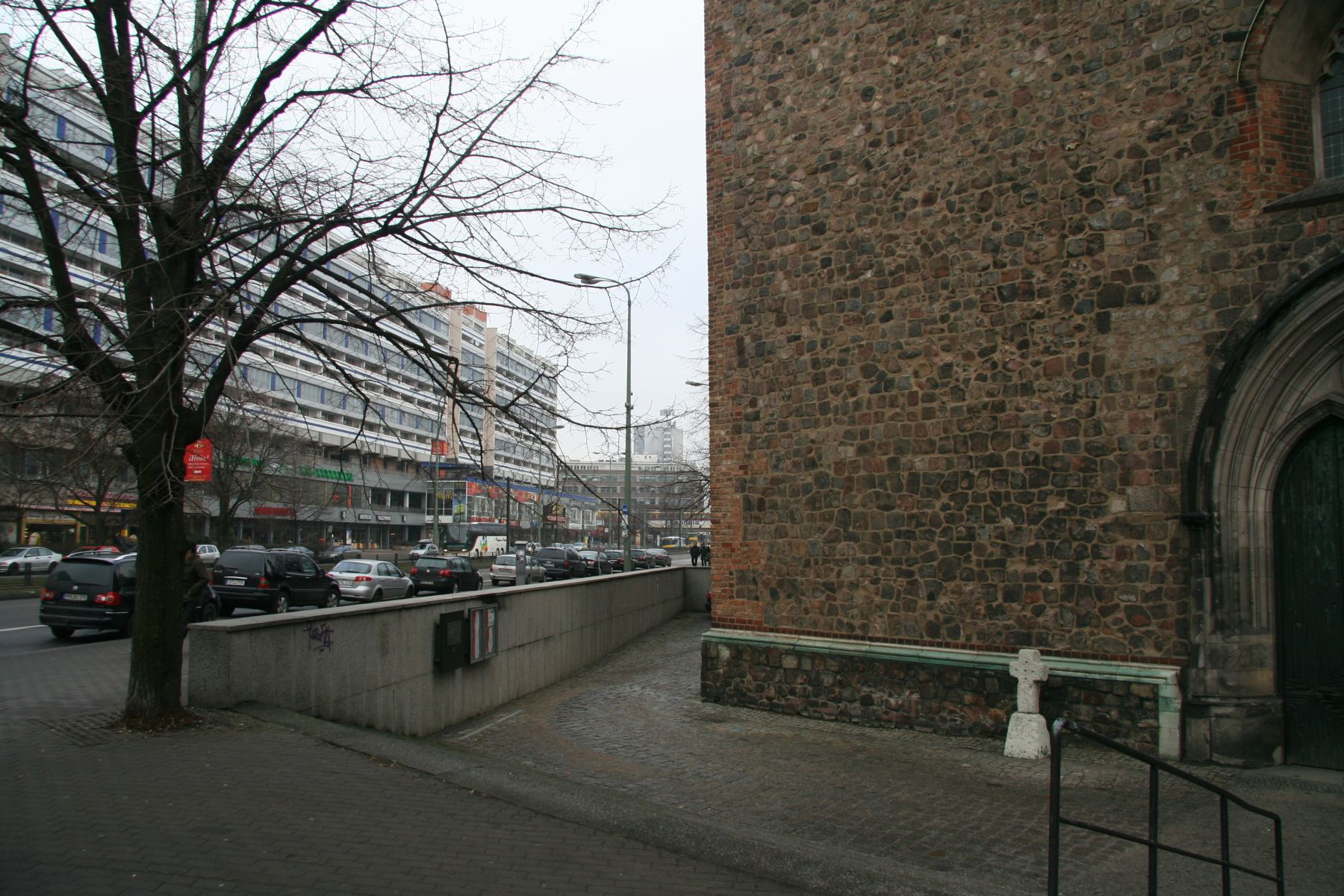 St. Mary Berlin